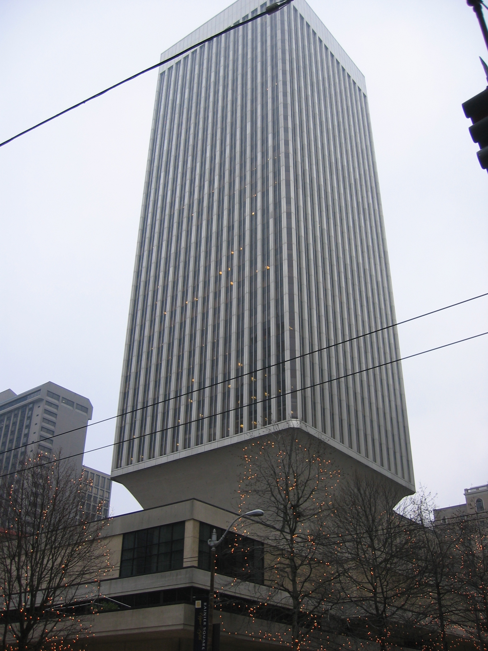 Rainier Tower, Seattle, Washington, USA.